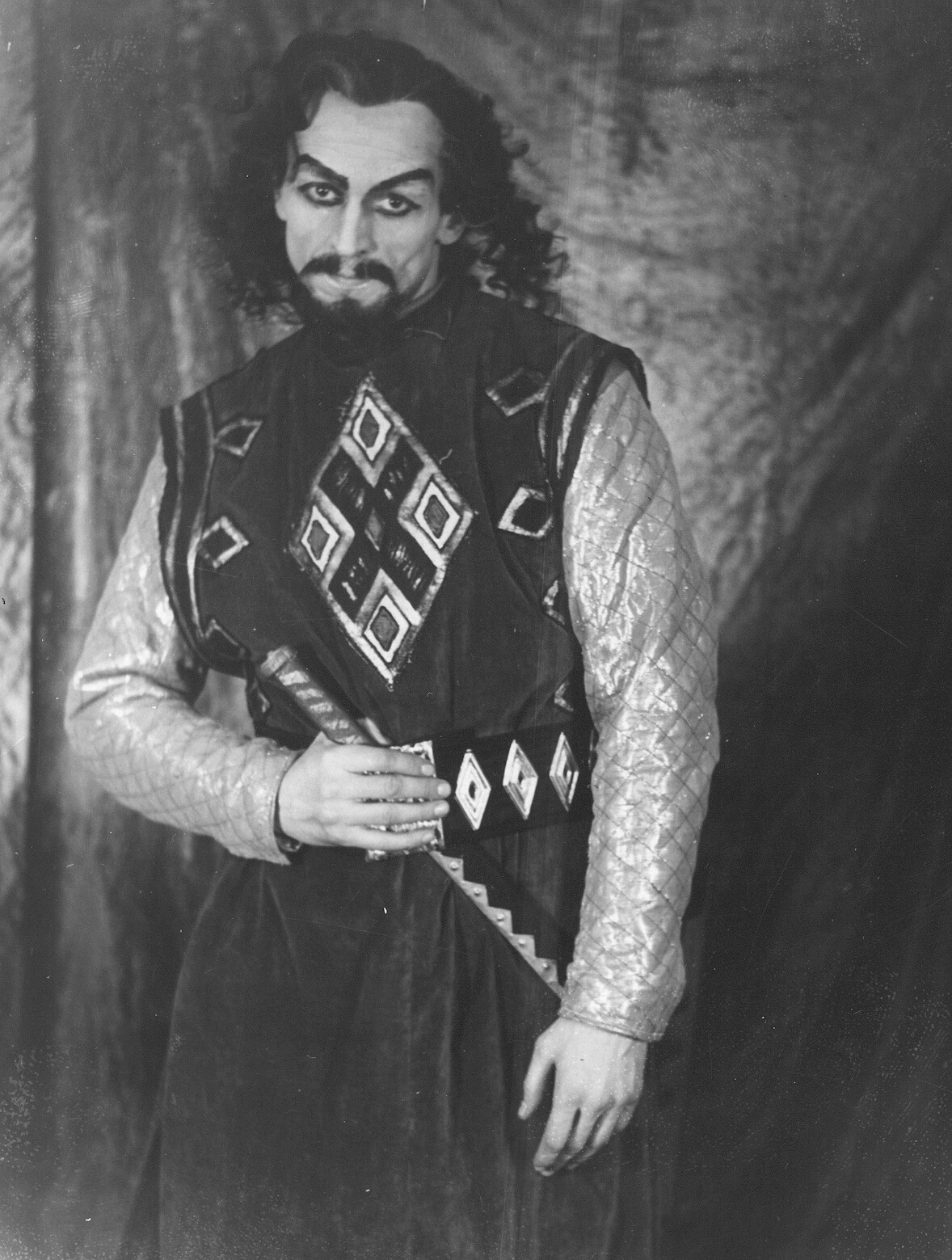 Vytautas Grivickas